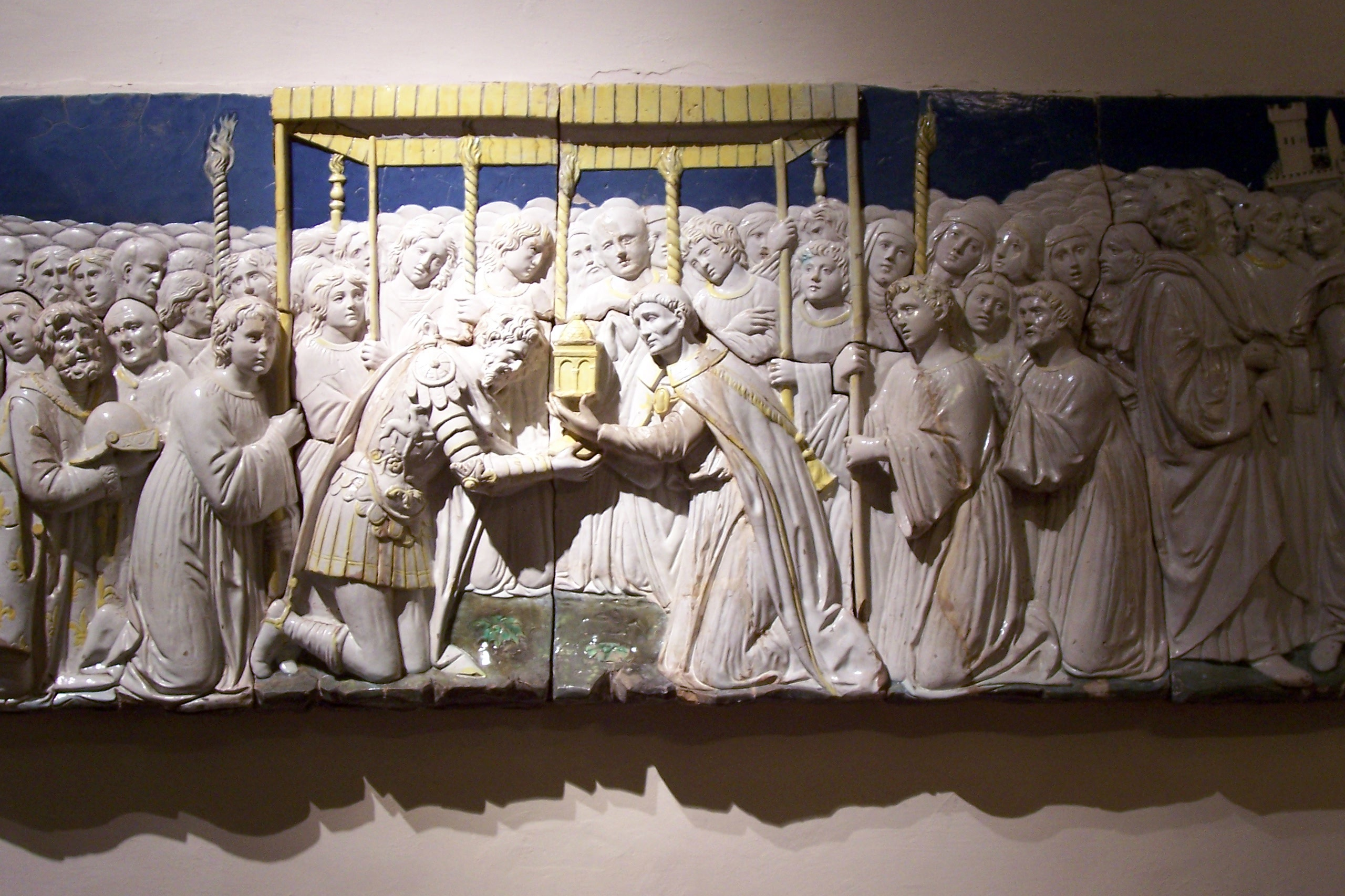 Delivery of the Holy Mary's Milk relic from count Guido Guerra VI to the prior of San Lorenzo Church in Montevarchi. Montevarchi, Collegiata di San Lorenzo Museum